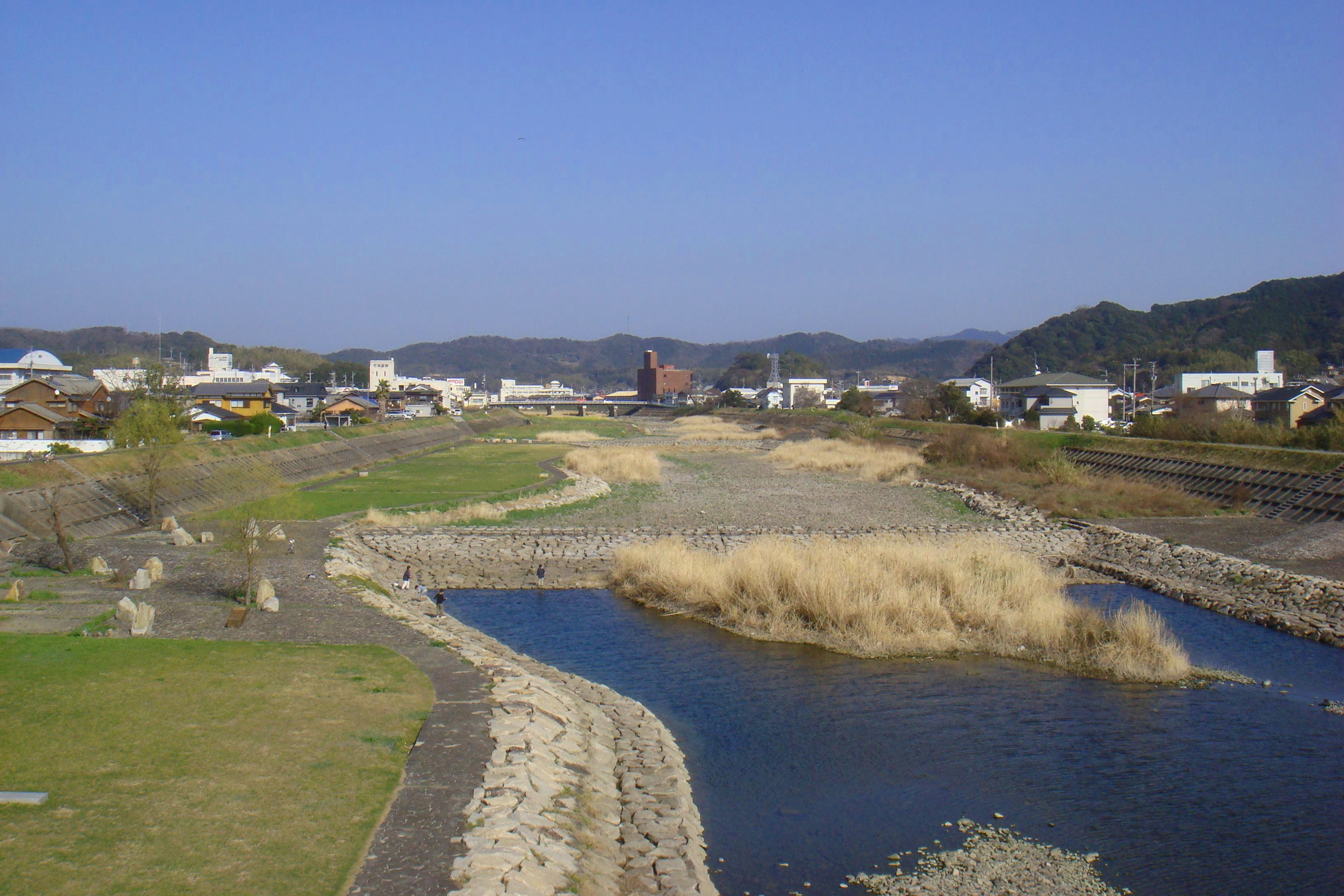 A view of Sozu river, which runs through Ainan town in Ehime Japan.